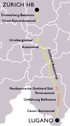 The Gotthard Line with all NEAT projects